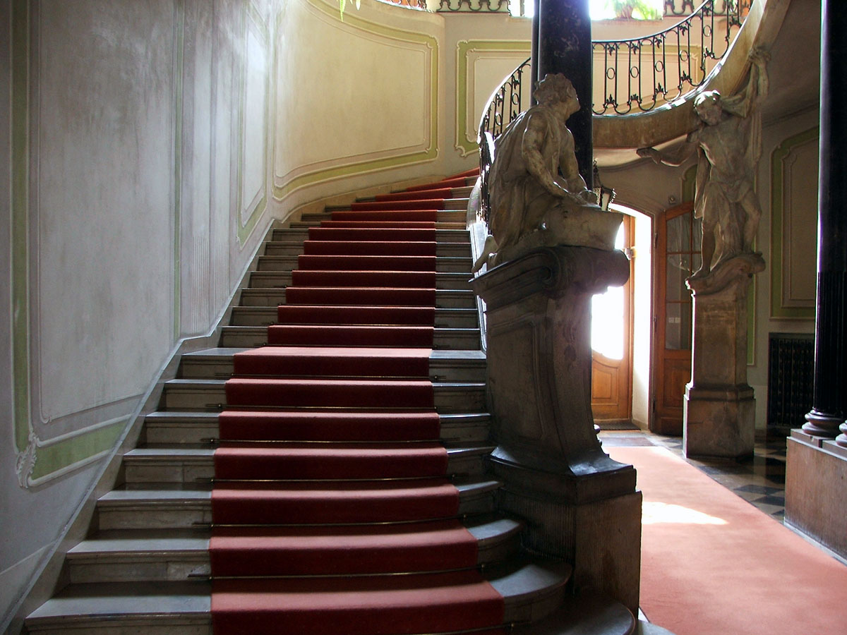 Hall and main stairway of the Branicki Palace in Białystok.